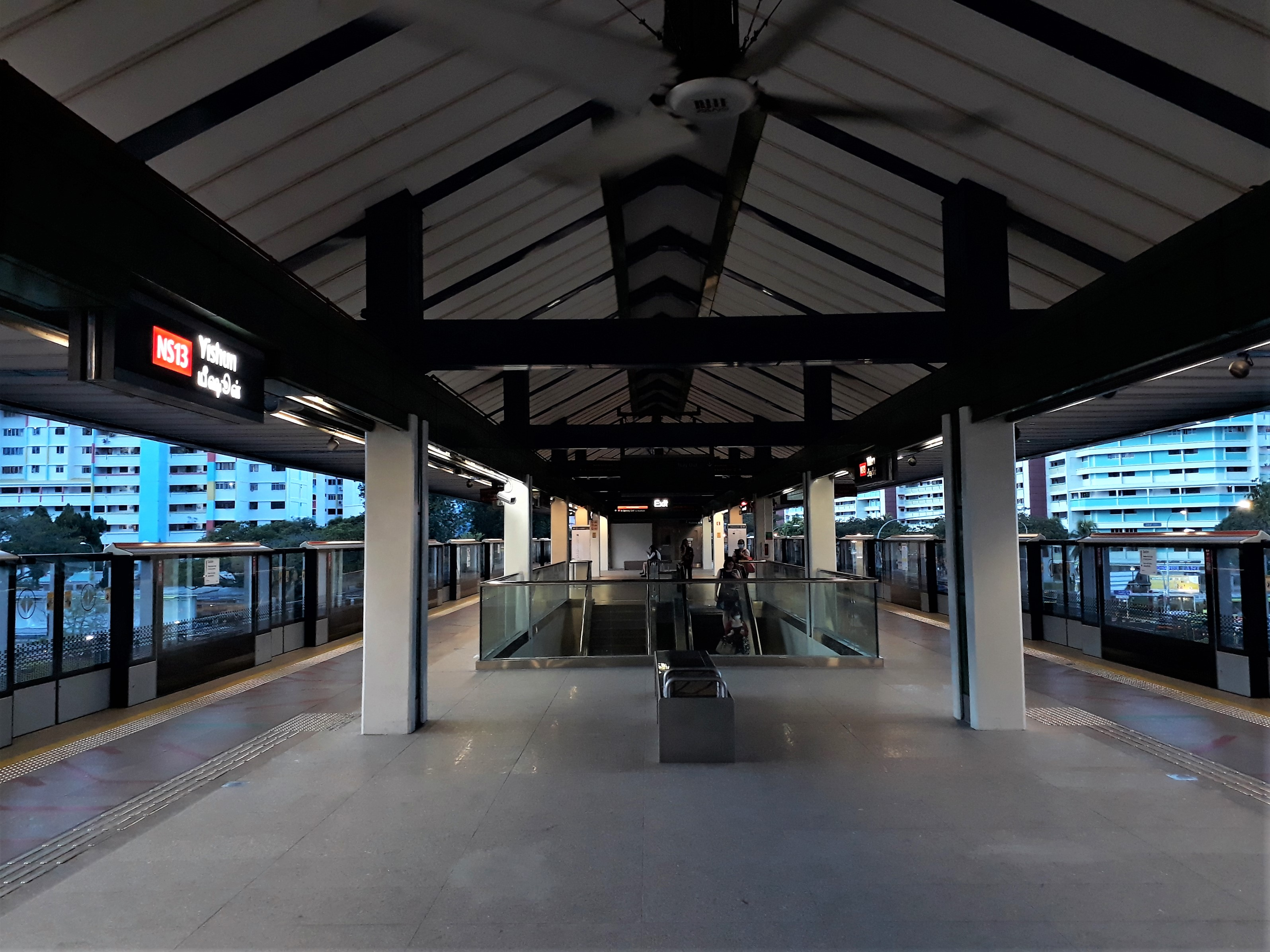 Station platforms of Yishun MRT Station